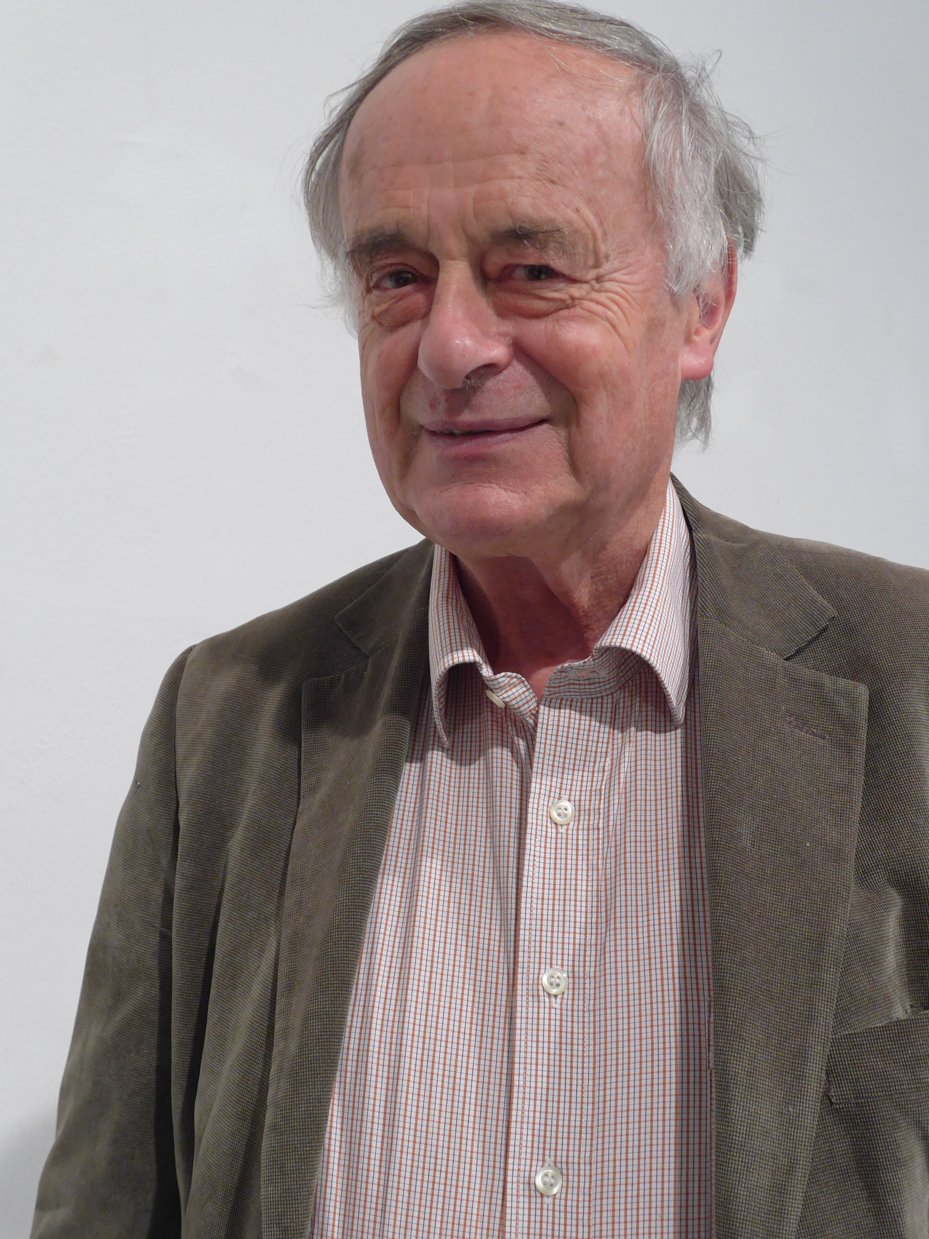 Dian Schefold, professor of law in Bremen, Germany, at an event in October 2014 in Bremen.